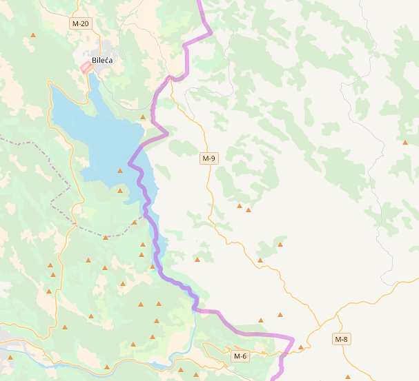 Српски (ћирилица): Билећко језеро This map may be incomplete, and may contain errors. Don't rely solely on it for navigation.